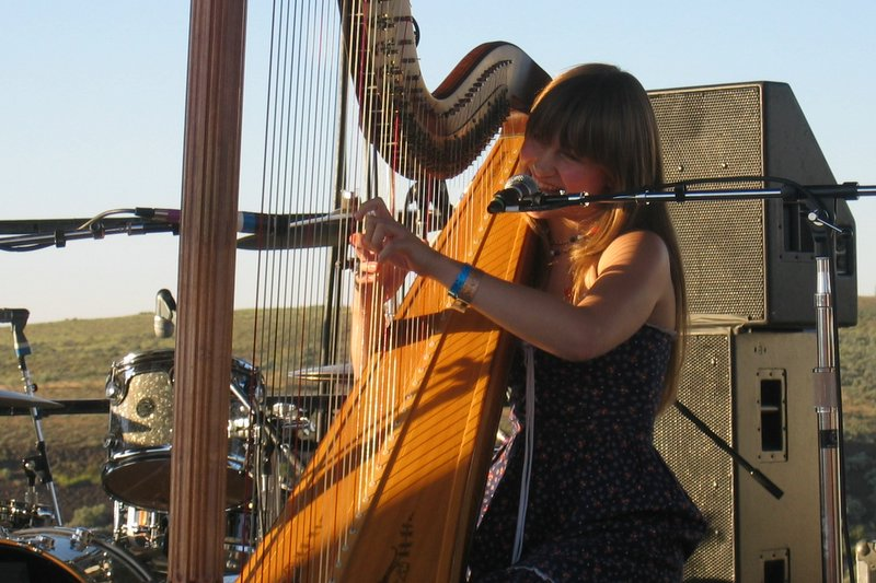 Sasquatch Music Festival @ The Gorge, WA